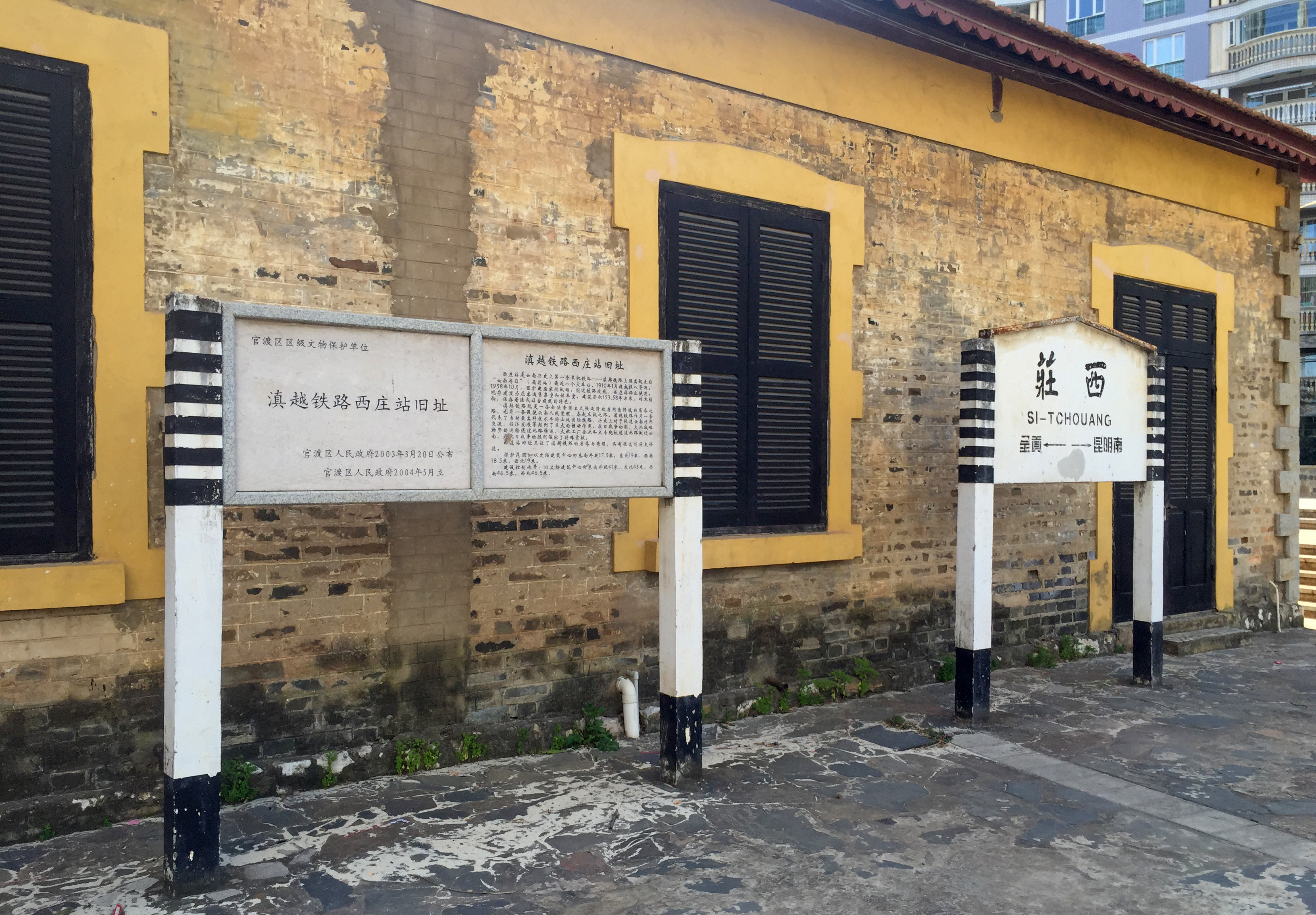 This 1910-built station is now hidden in a residential community!